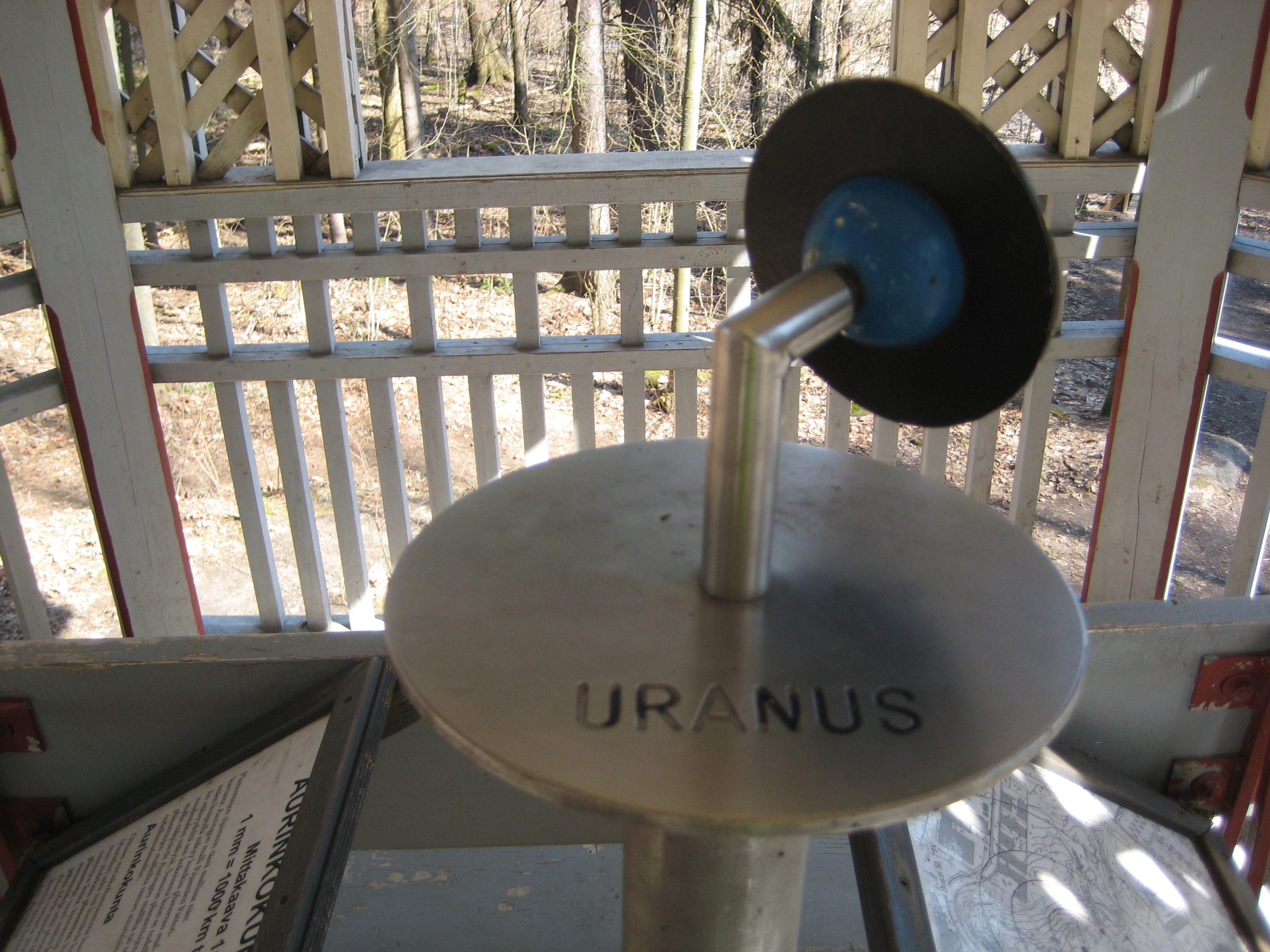 Planet Uranus in a Finnish solar system model, located in Villa Elfvik, Espoo